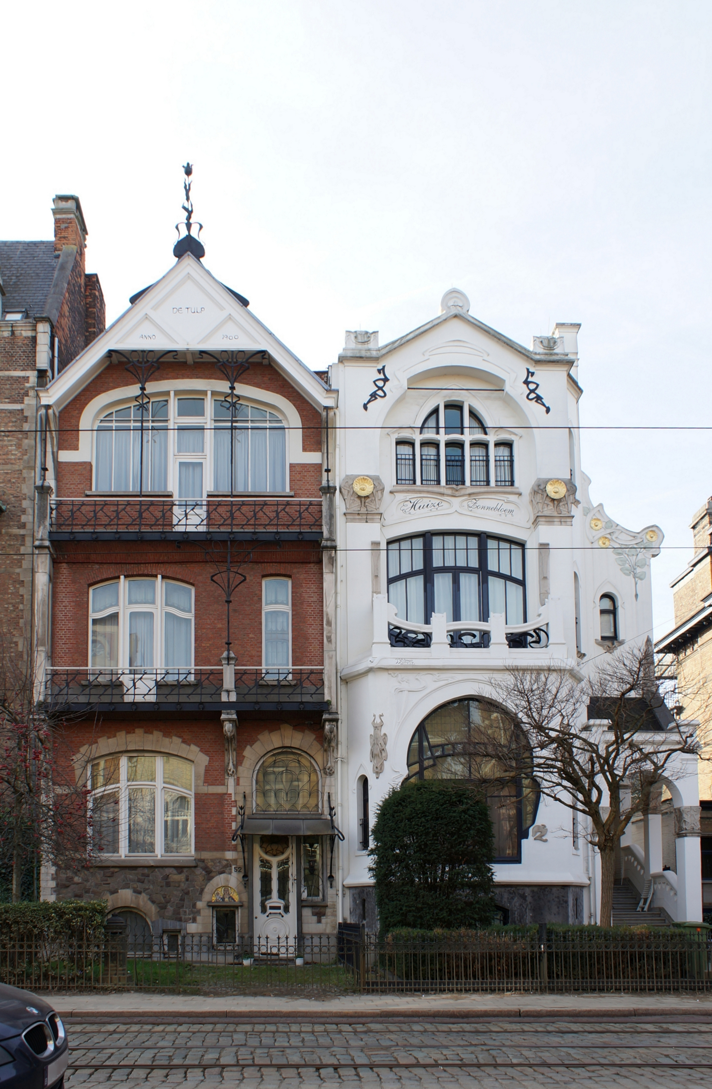 Houses in the Cogels Osylei 52-50 - Antwerp - Left De Tulp - Right De Zonnebloem - The artwork of architect Jules Hofman.